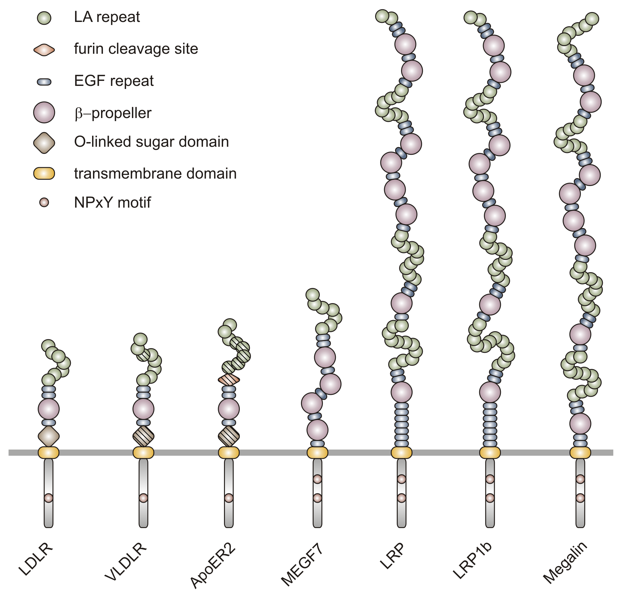 Members of the LDL receptor gene family contain five distinct modules present in characteristic numbers: LDL receptor type A (LA) repeats, necessary for ligand binding; EGF precursor homology domains, built up from EGF repeats and YWTD beta propellers; O-linked sugar domain; transmembrane domain; and a cytoplasmic tail harboring one or more NPxY motifs essential for binding of intracellular adapter proteins. Differentially spliced domains are depicted hatched.